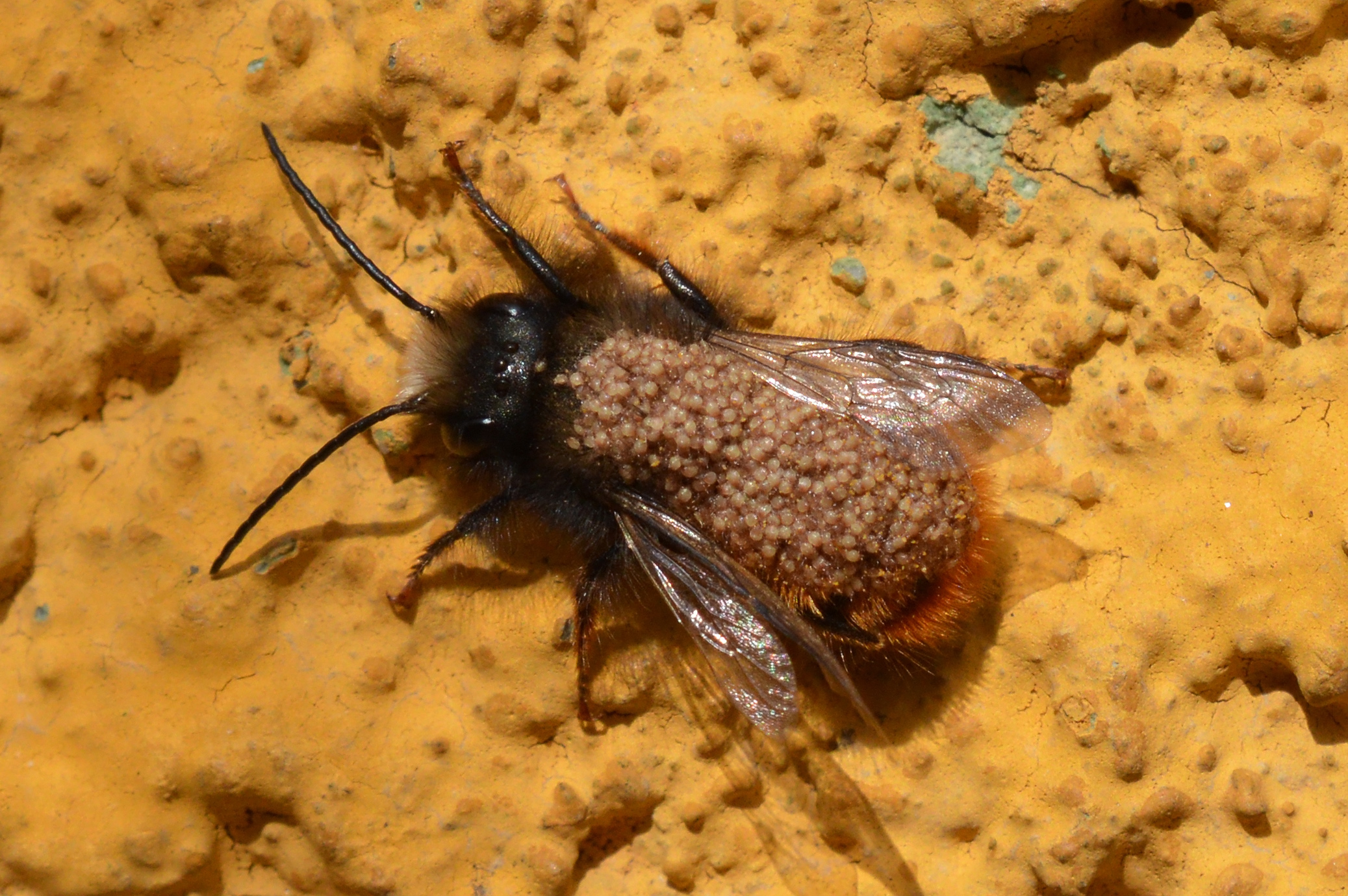 Male Osmia cf. cornuta bee with phoretic mites, possibly Chaetodactylus sp. In Botevgrad, Bulgaria.